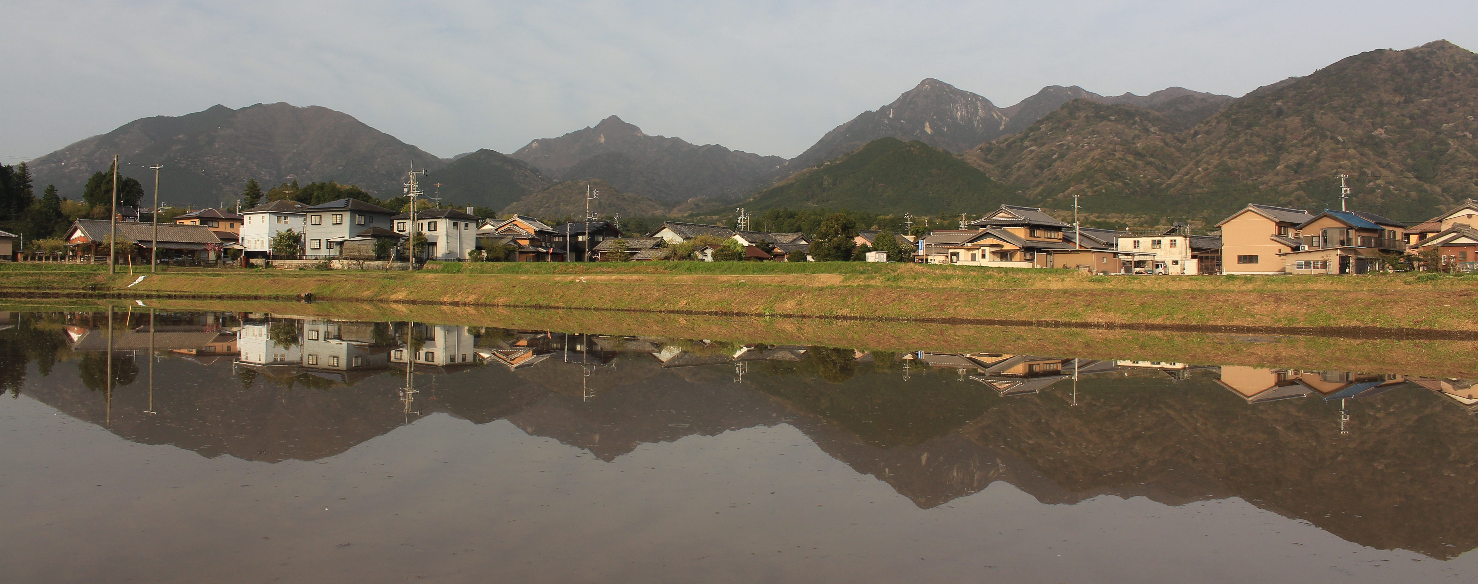 Mount Kirara, Mount Kama and Mount Gozaisho in Komono, Mie Prefecture, Japan.